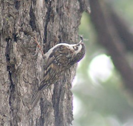 Certhia familiaris mandelli or C. hodgsoni or C. hodgsoni mandelli